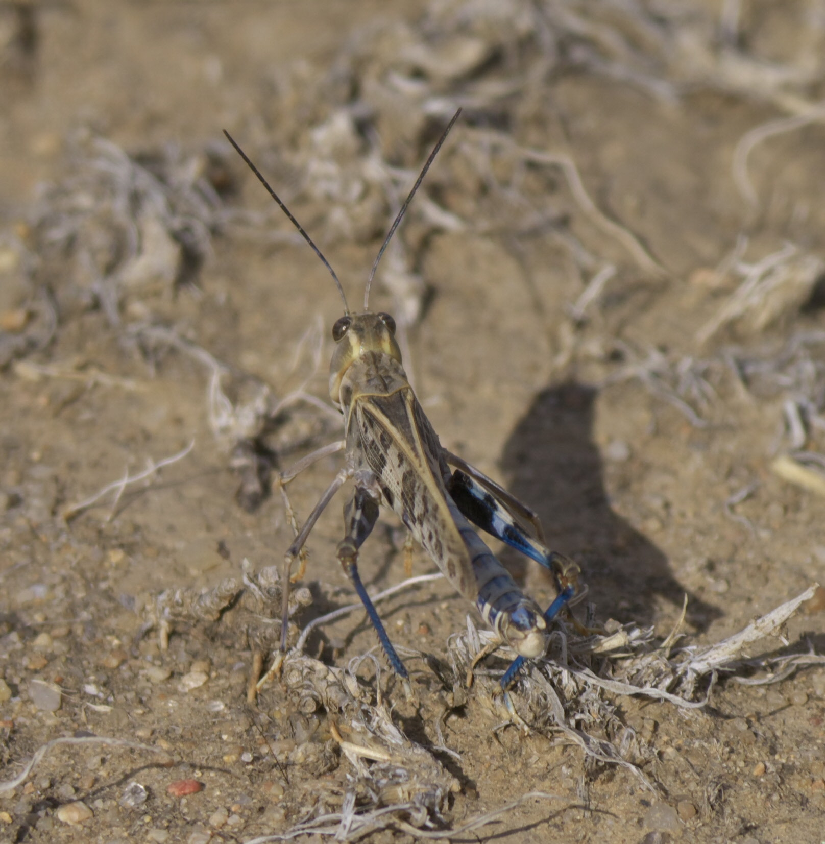 Metator pardalinus, Blue-legged Grasshopper, male, ID Confidence: 98